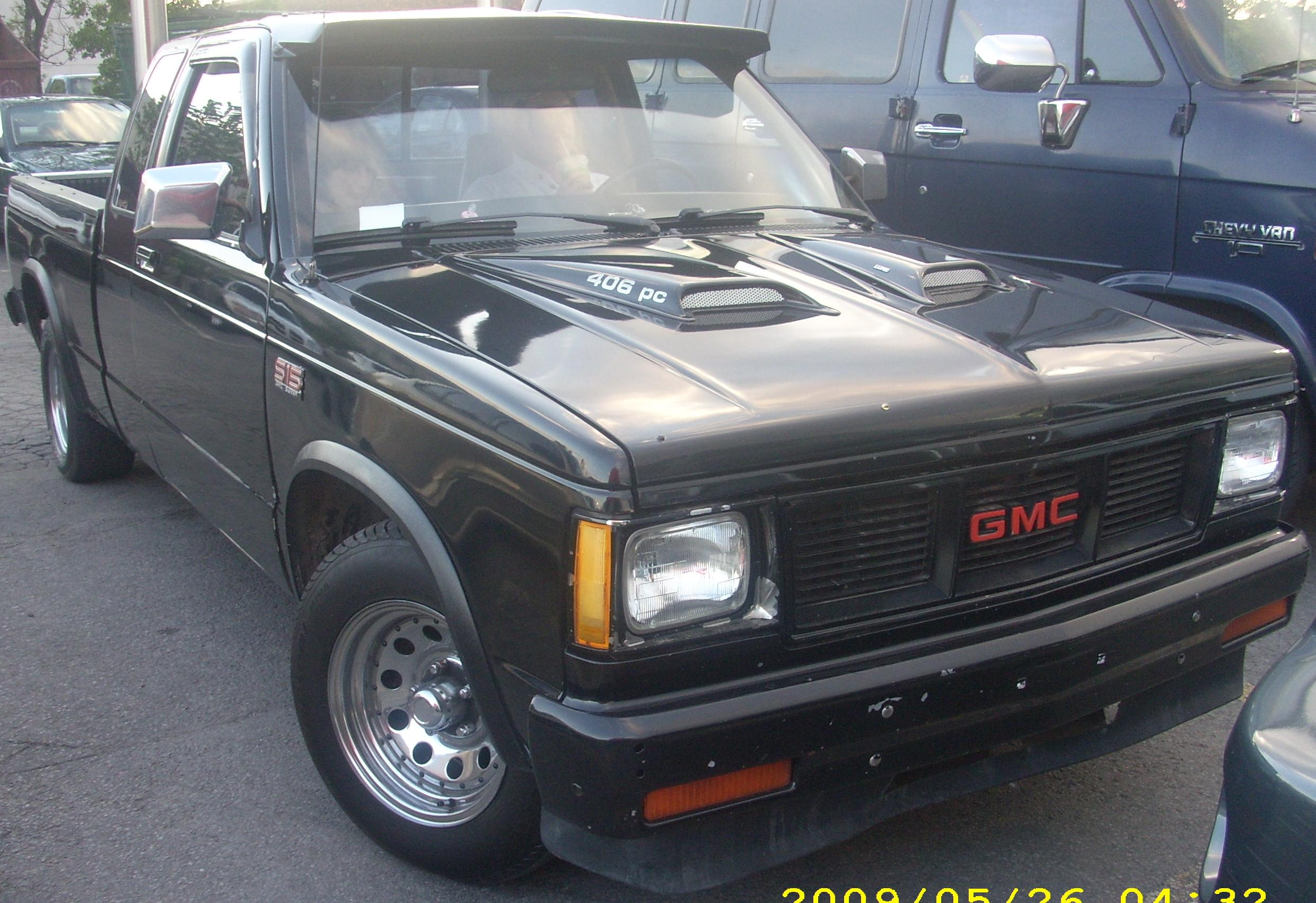 GMC S-15 Sierra photographed in Montreal, Quebec, Canada at Gibeau Orange Julep.